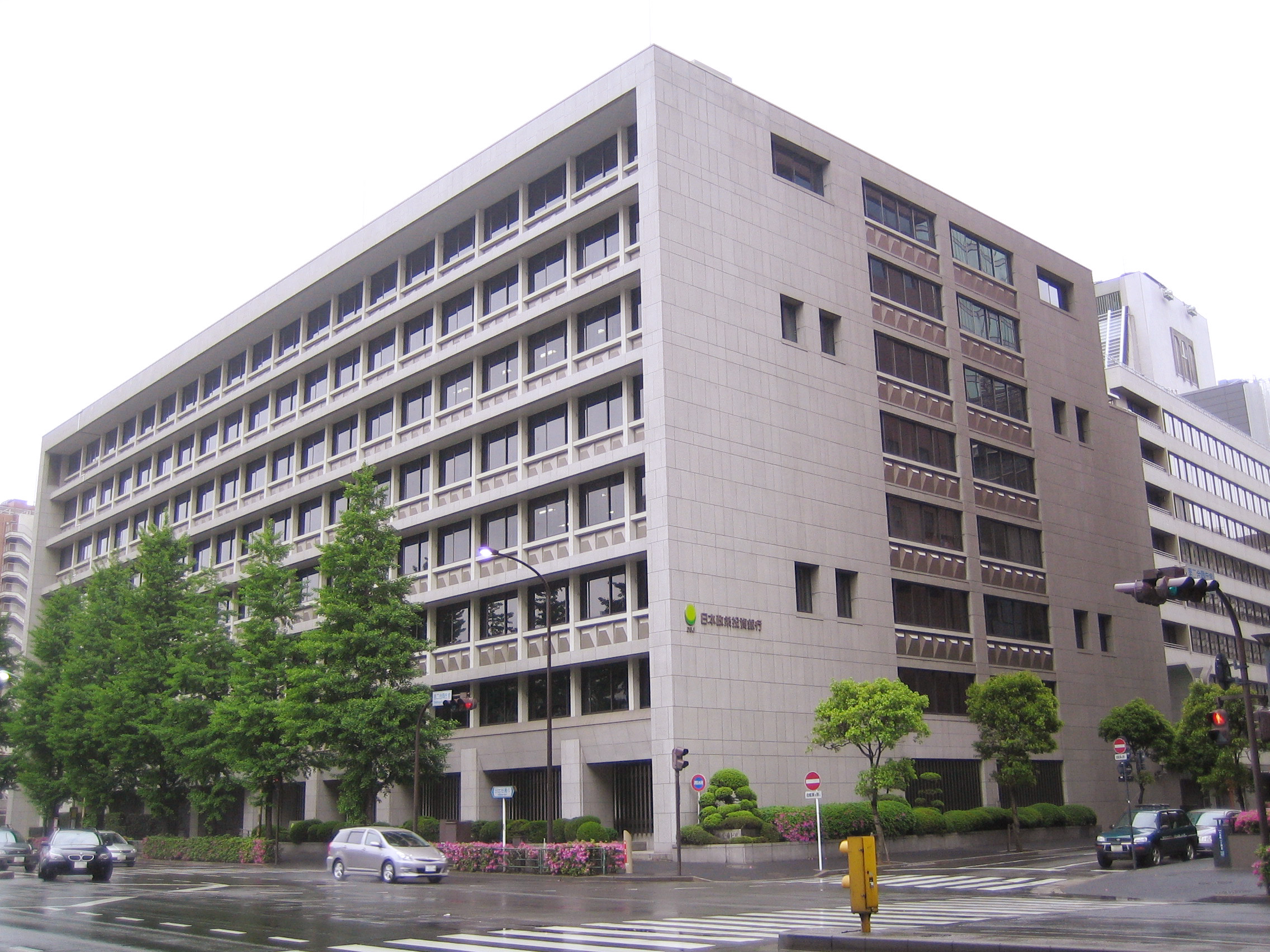 Development Bank of Japan (日本政策投資銀行), in Chiyoda, Tokyo, Japan